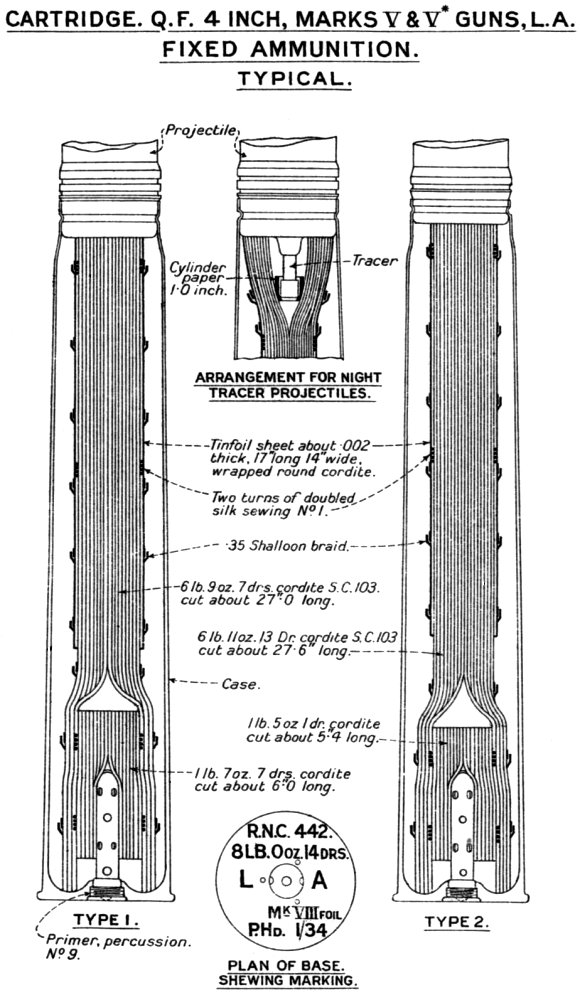 Diagram of 8 lb 0 oz 14 drams Fixed low-angle Cordite Cartridge for British QF 4 inch Mk V naval gun, LA.